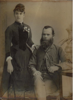 Left to right: Esther Margaret Lakeland, nee Culton born Toowoomba, Queensland 1868 . Died Cooktown, Queensland. 1949. William Lakeland born Sydney, New South Wales, 1847. Died remote (Coen district) approximately Christmas Eve, 1921